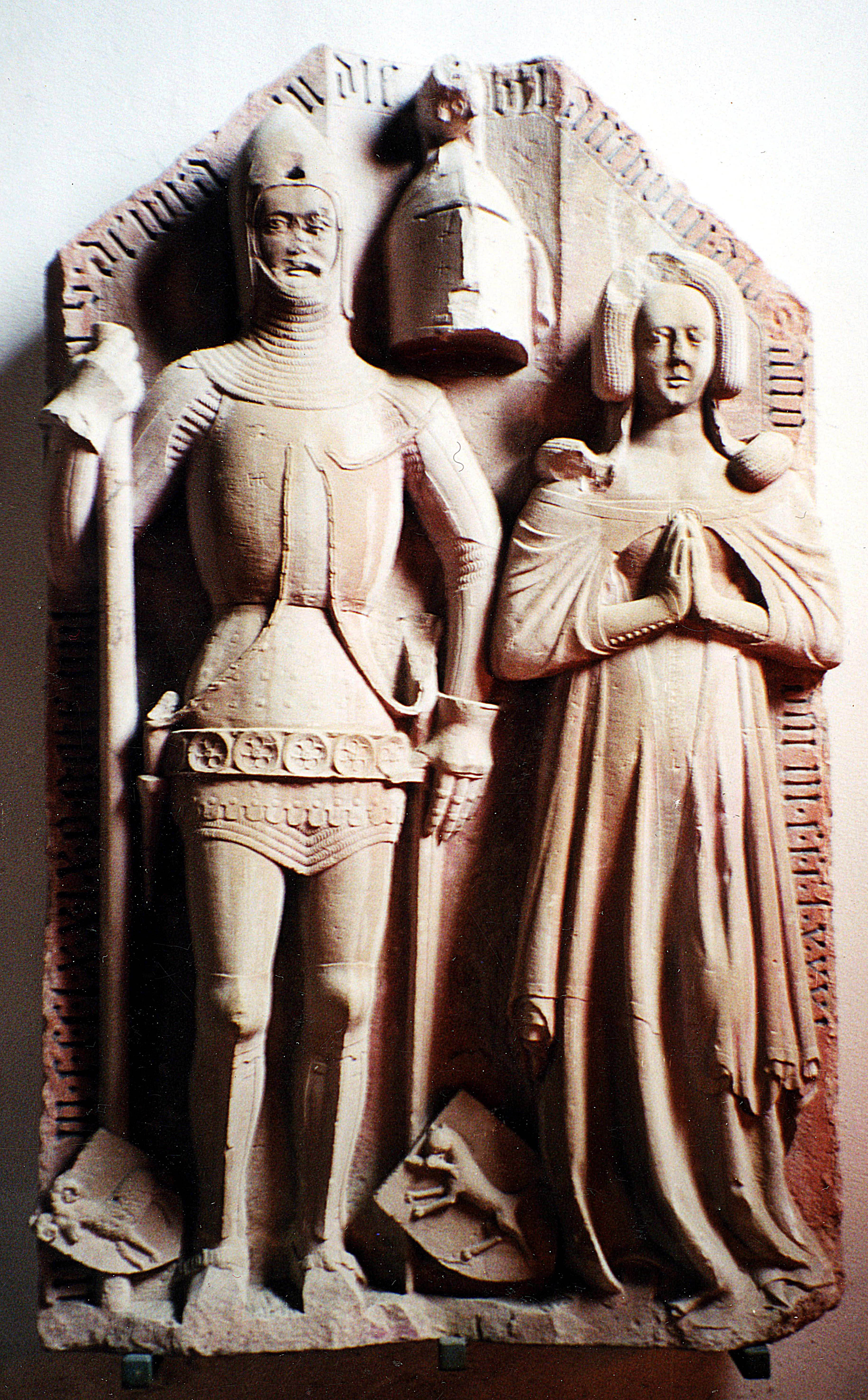 Catholic parish church of St. Michael und St. Gertrudis at Neustadt am Main (by Lohr), formerly the Benedictine abbey church: double grave of the knight from Voit von Rieneck family (+1379) and his wife (+1381), apparently from the Bibra family